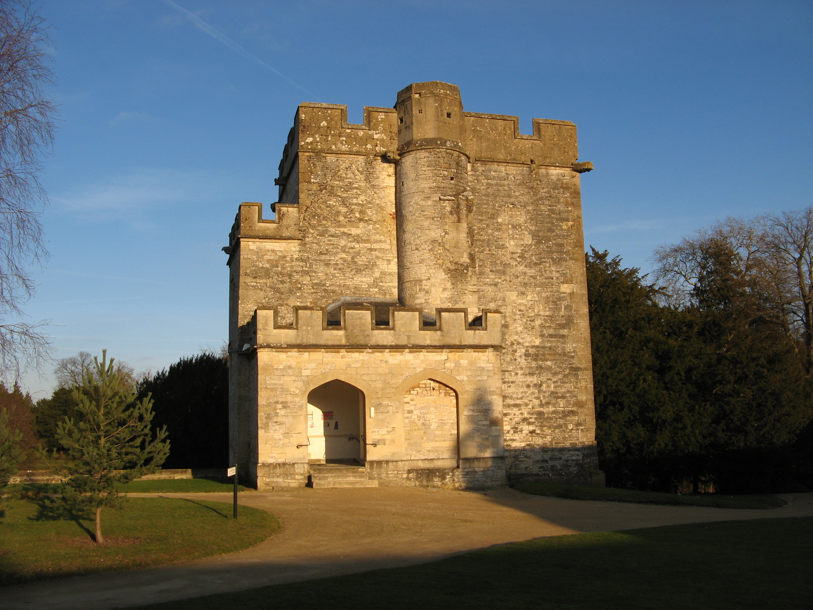 Newton St Loe Castle, on the Bath Spa University campus, from the west.